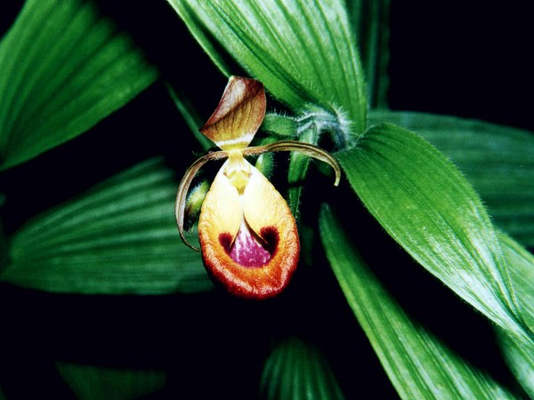 Selenipedium palmifolium